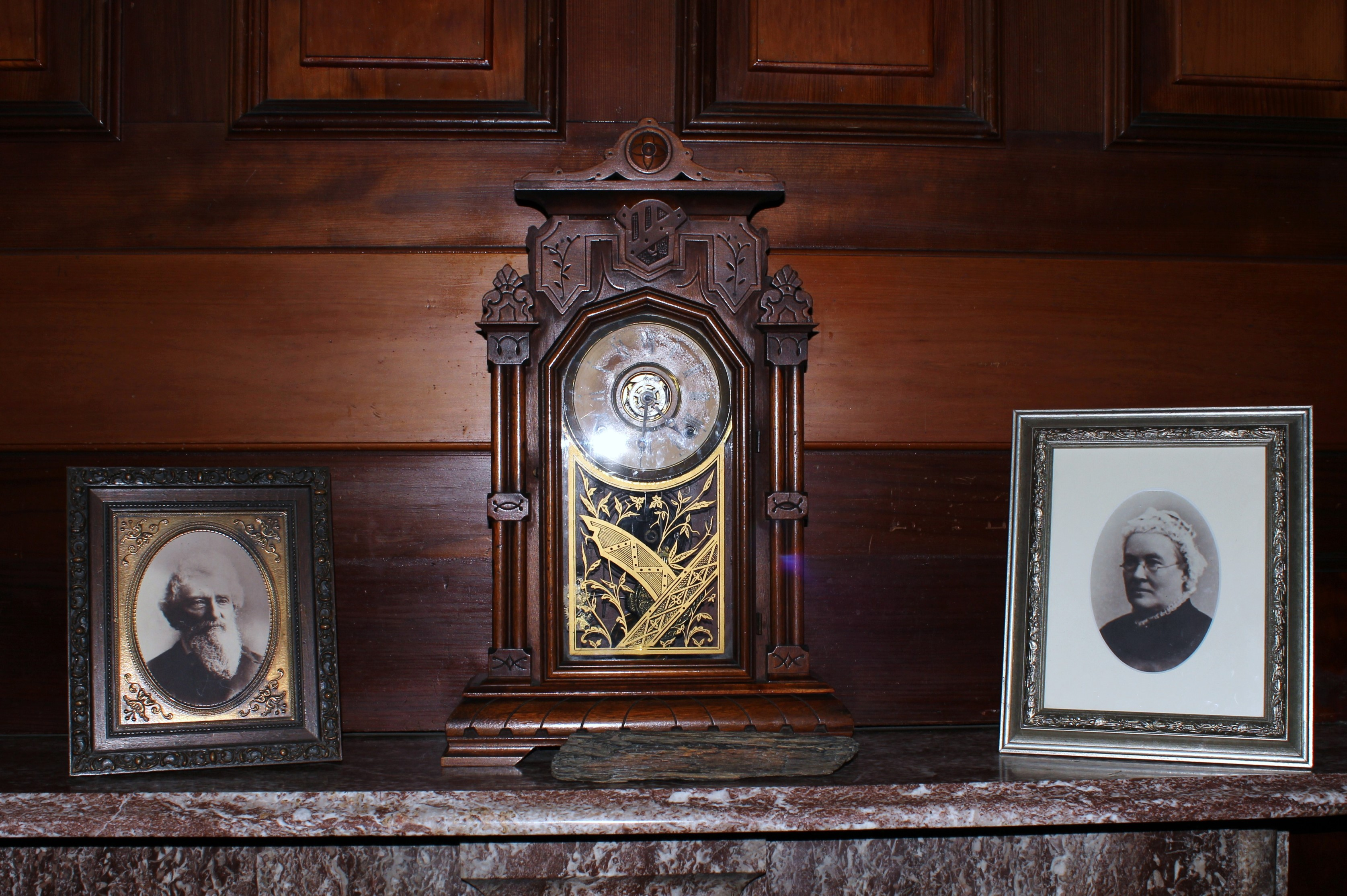 Martinez, CA USA - John Muir National Historic Site (Photo of dr. John Strentzel /Polish Jan Strencel/ and his wife Louisiana)